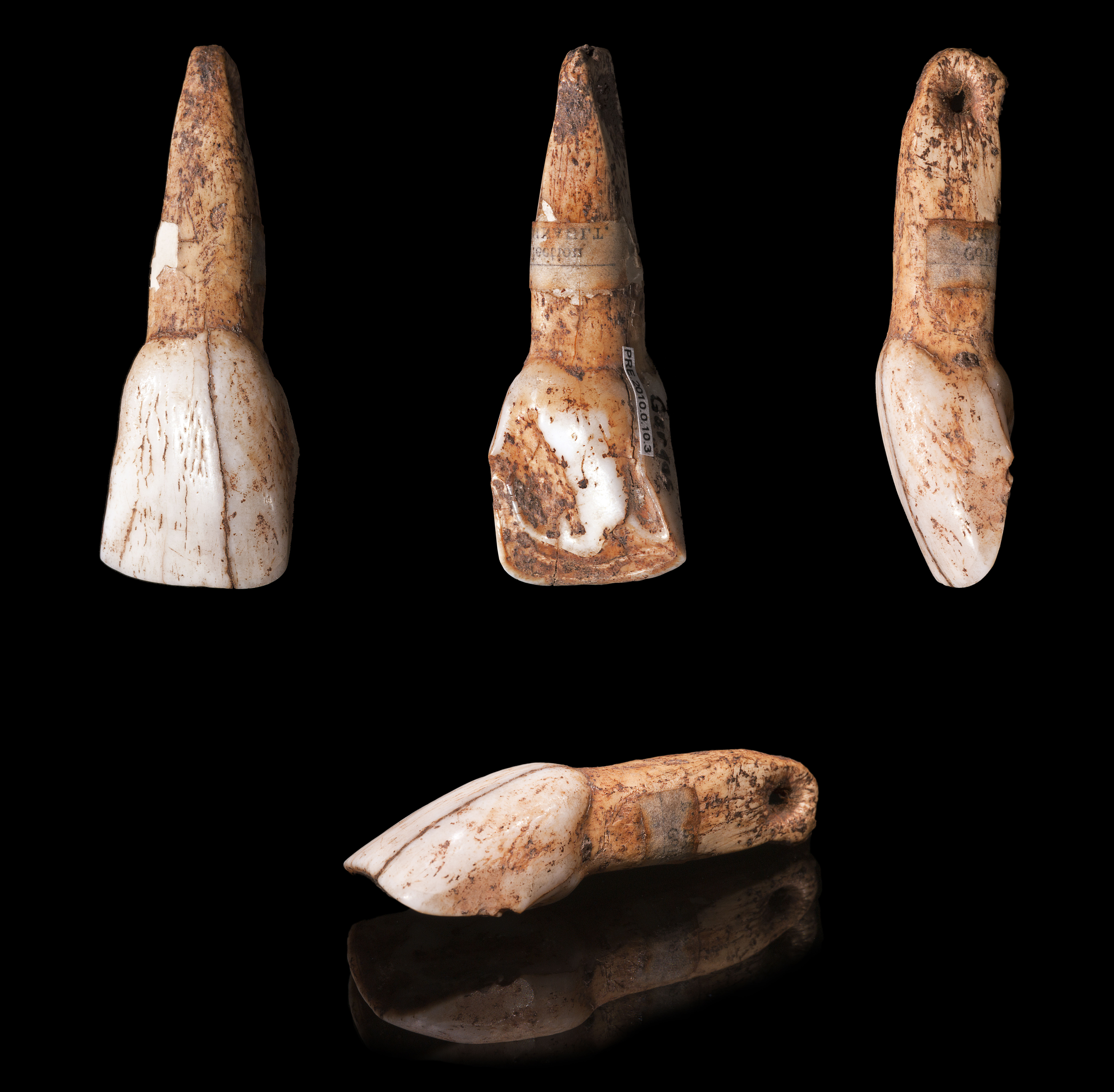 Perforated bovid Incisor - Multiple views of the same object. Stage : Upper Paleolithic - Gravettian (29,000 to 22,000 years Before the Current Era) Locality : Gargas caves, Hautes-Pyrénées, France Former collection of Félix Régnault. Size : 5.2x1.8x1.5 cm